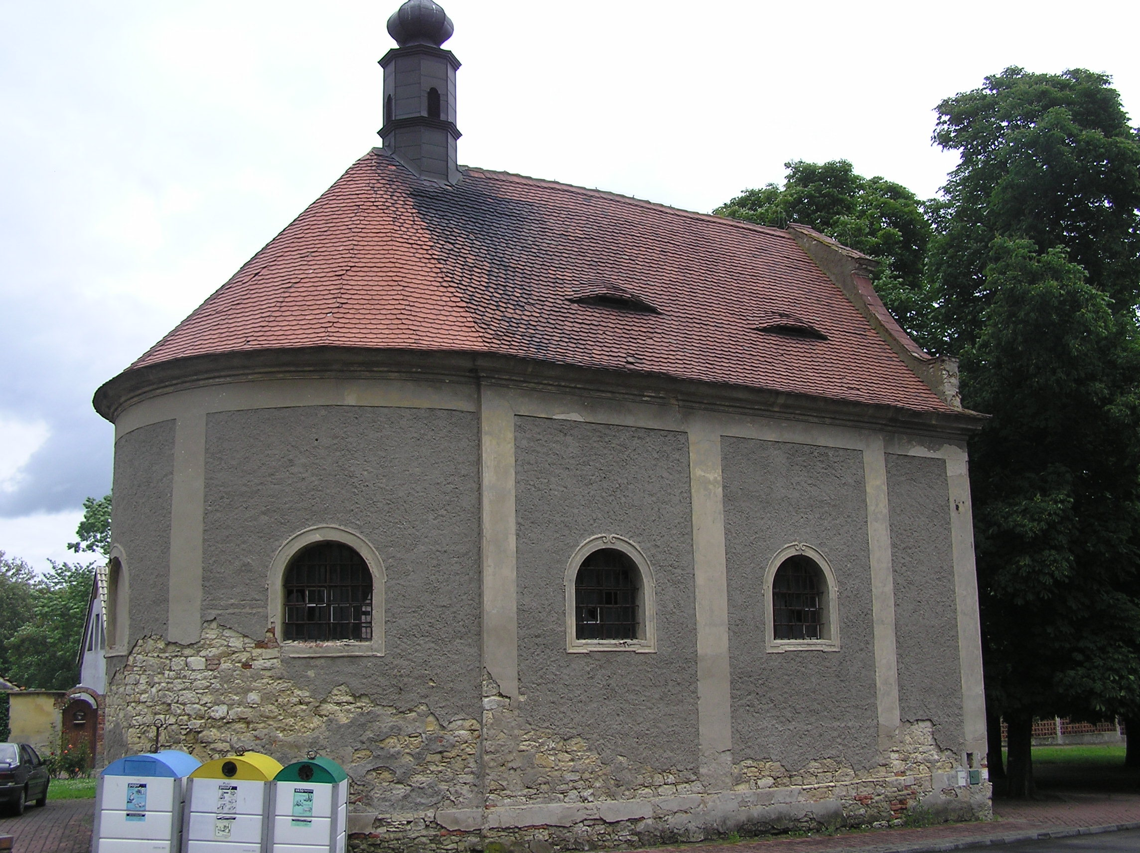 Chapel of Presentation of the Virgin Mary from 1743 in Výškov